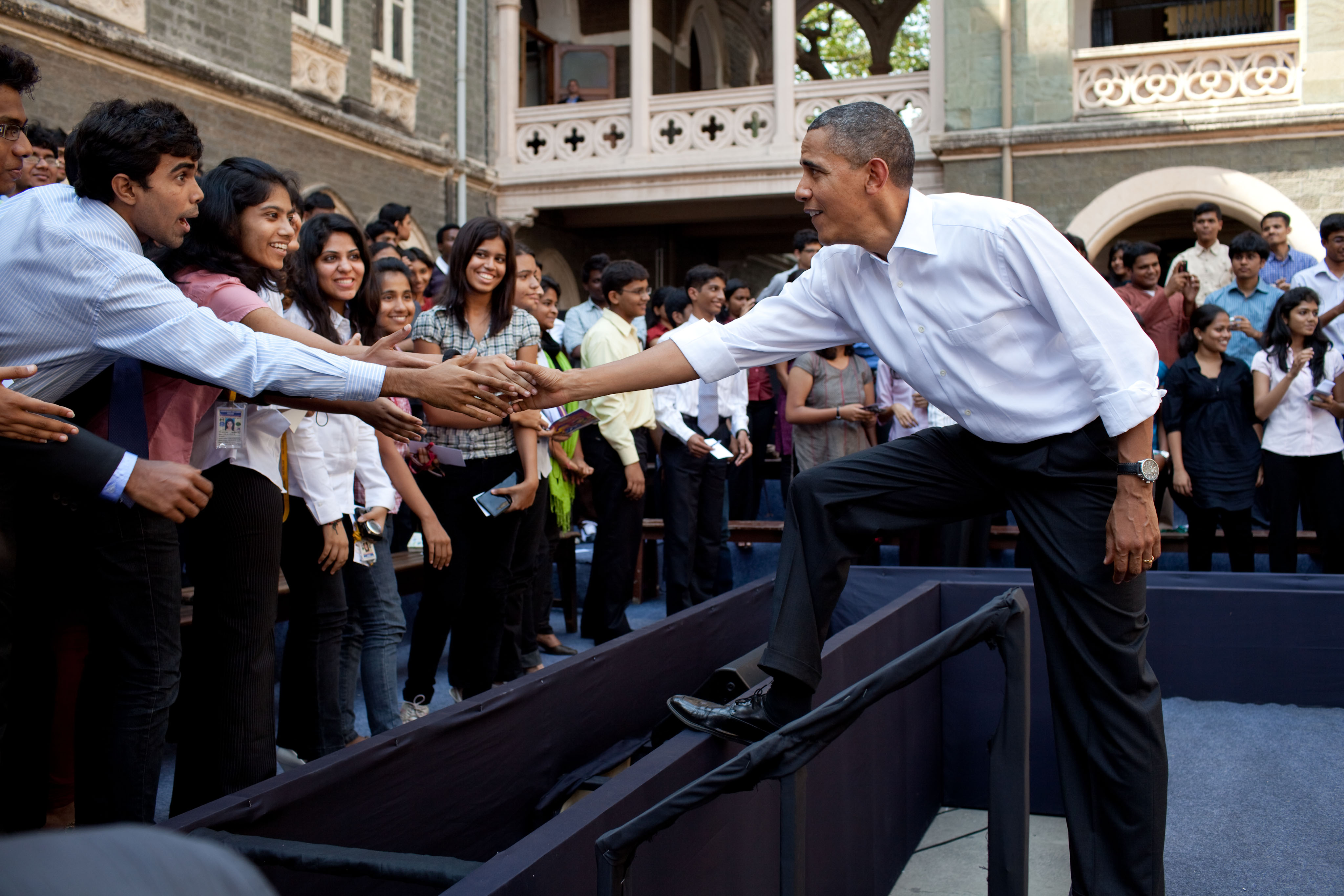 President Barack Obama greets students following a town hall meeting at St. Xavier College in Mumbai, India, Nov. 7, 2010. (Official White House Photo by Pete Souza)